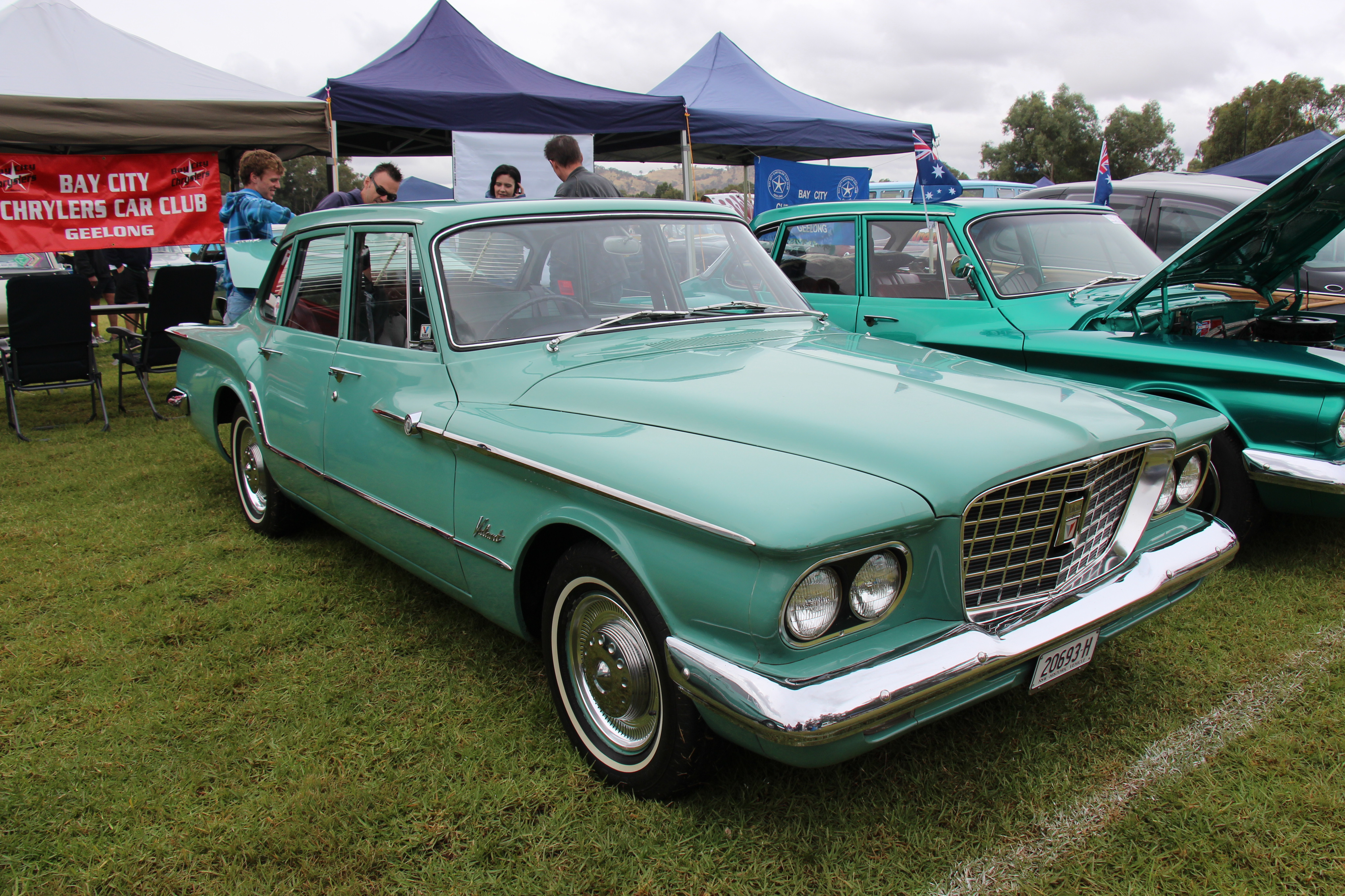 Chrysler Valiant R Series Sedan